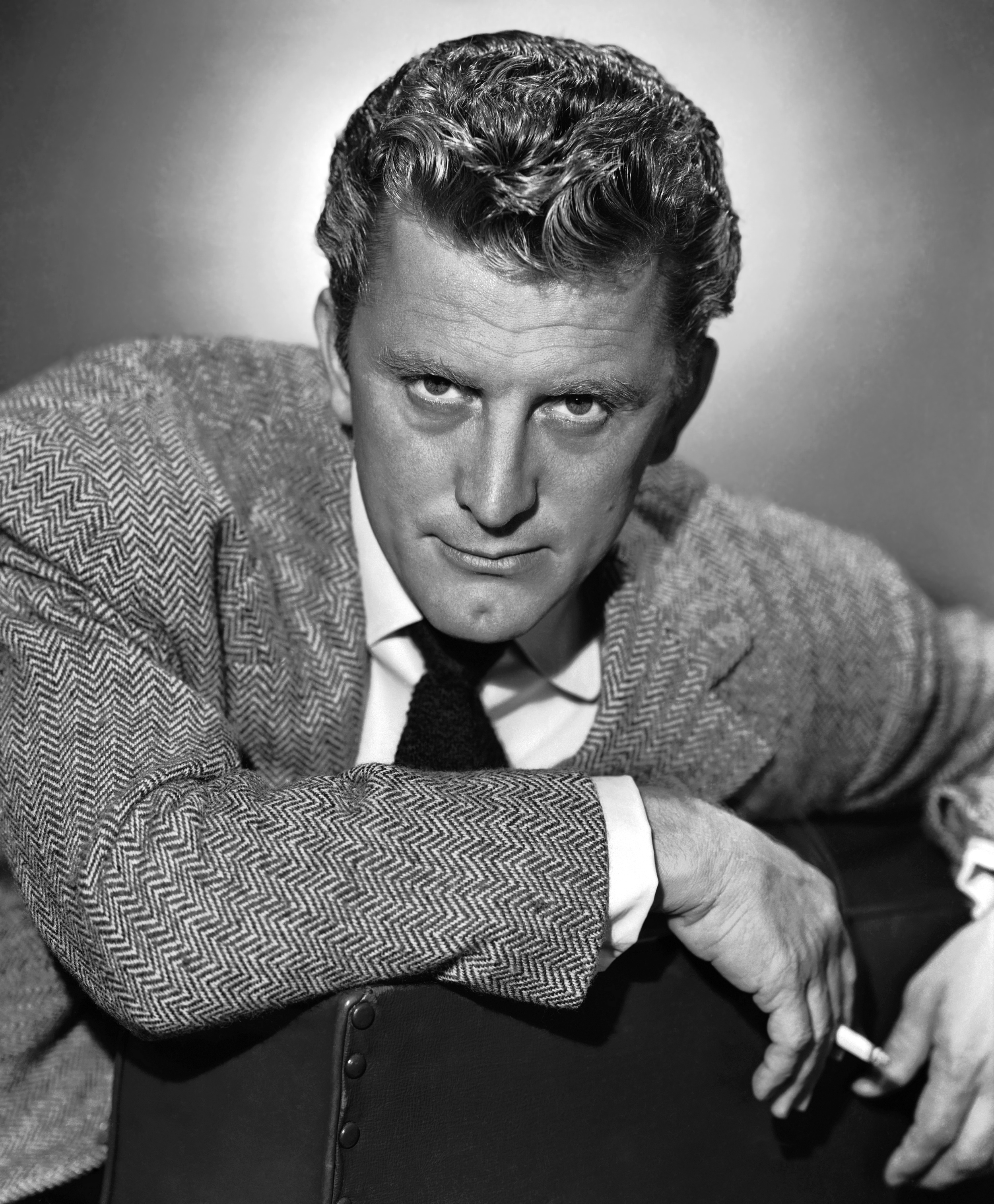 Publicity photo of Kirk Douglas. Original upload has signature. Seller states on their listing that there is nothing printed on the reverse side. See also: film still for copyright information.